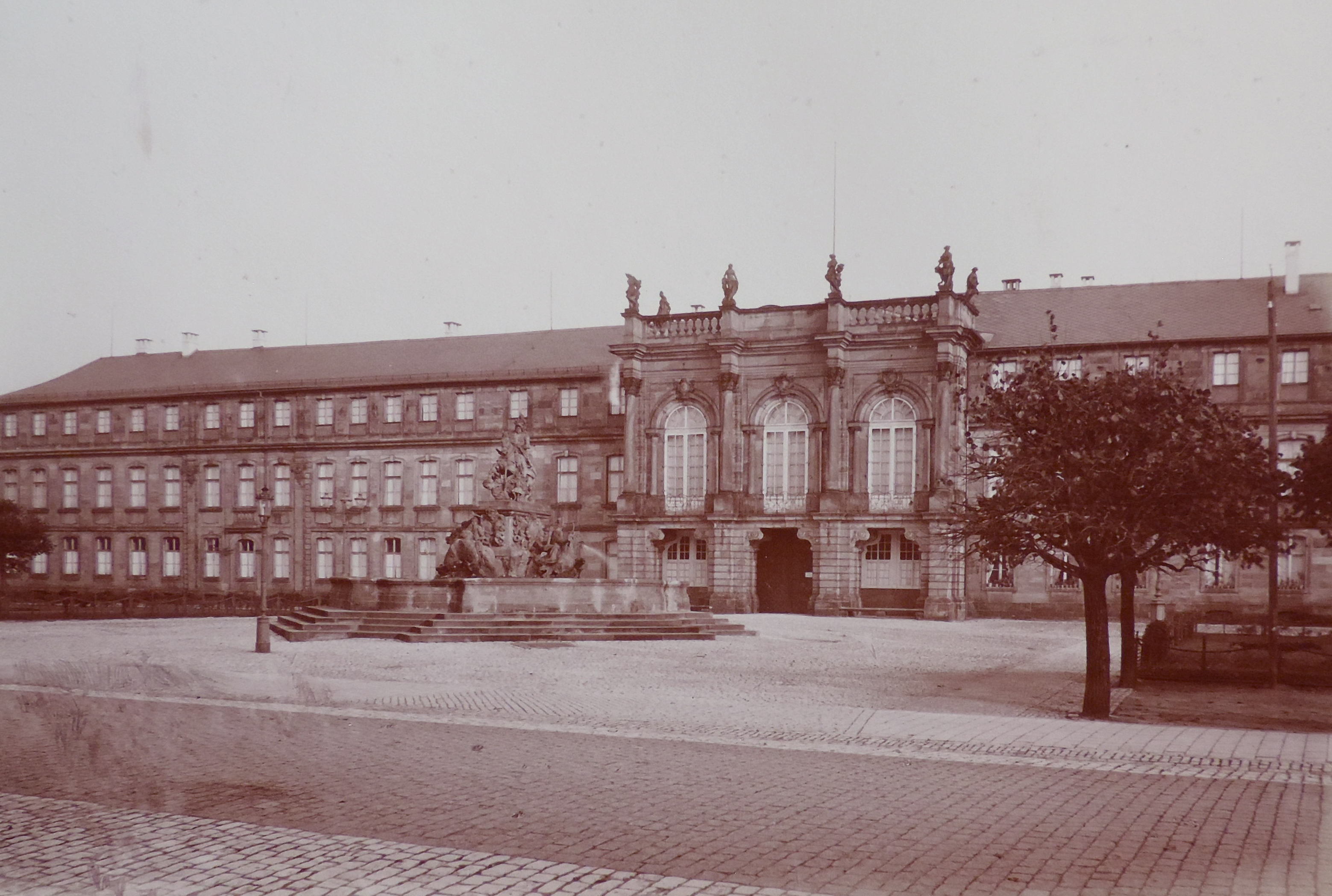 Views and photos of Bayreuth, Germany, gifted to Ferdinand I of Bulgaria to commemorate his 25-year rule. A castle from 1759.